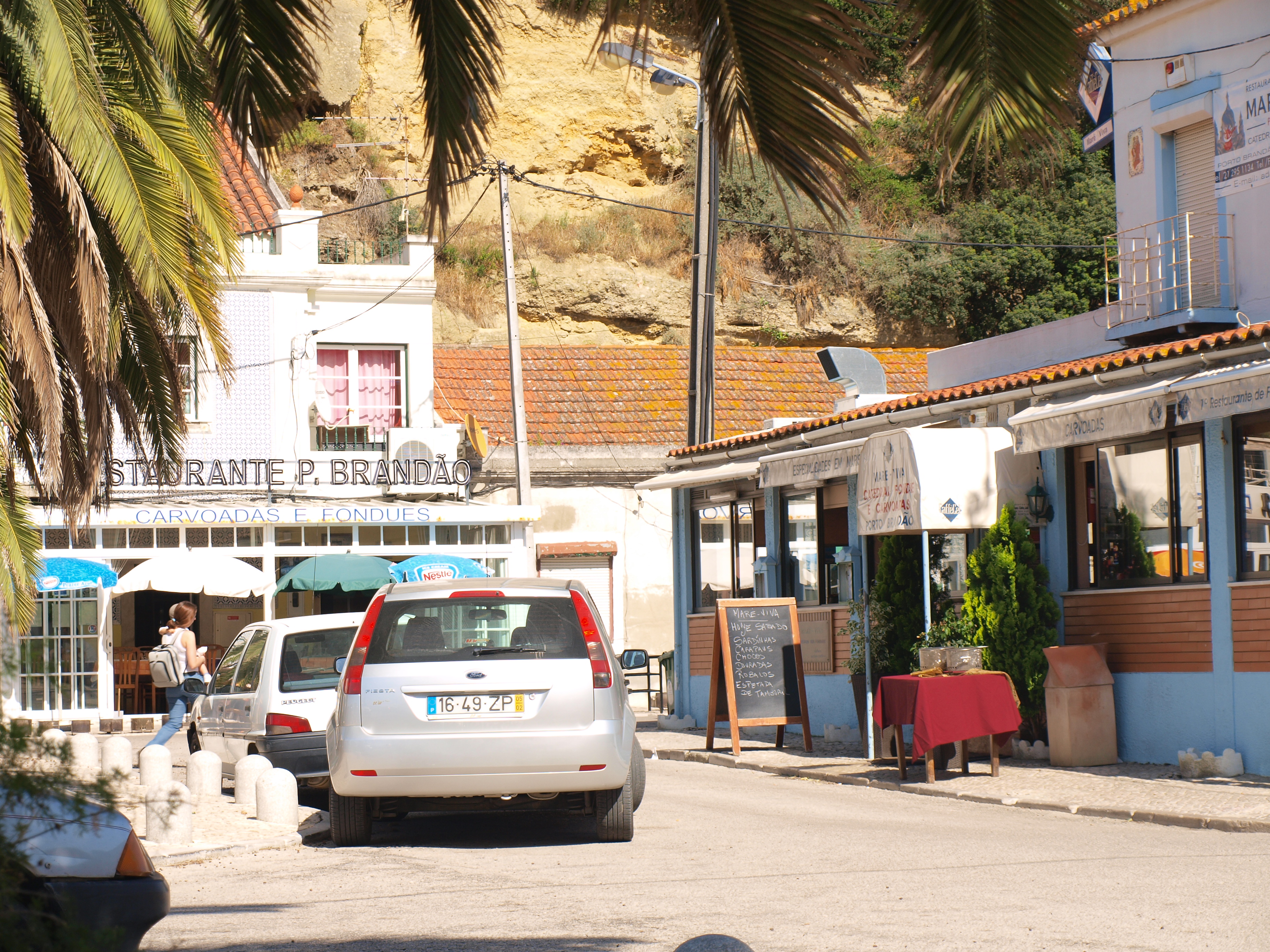 Street at Porto Brandão, Caparica, Almada, Portugal.